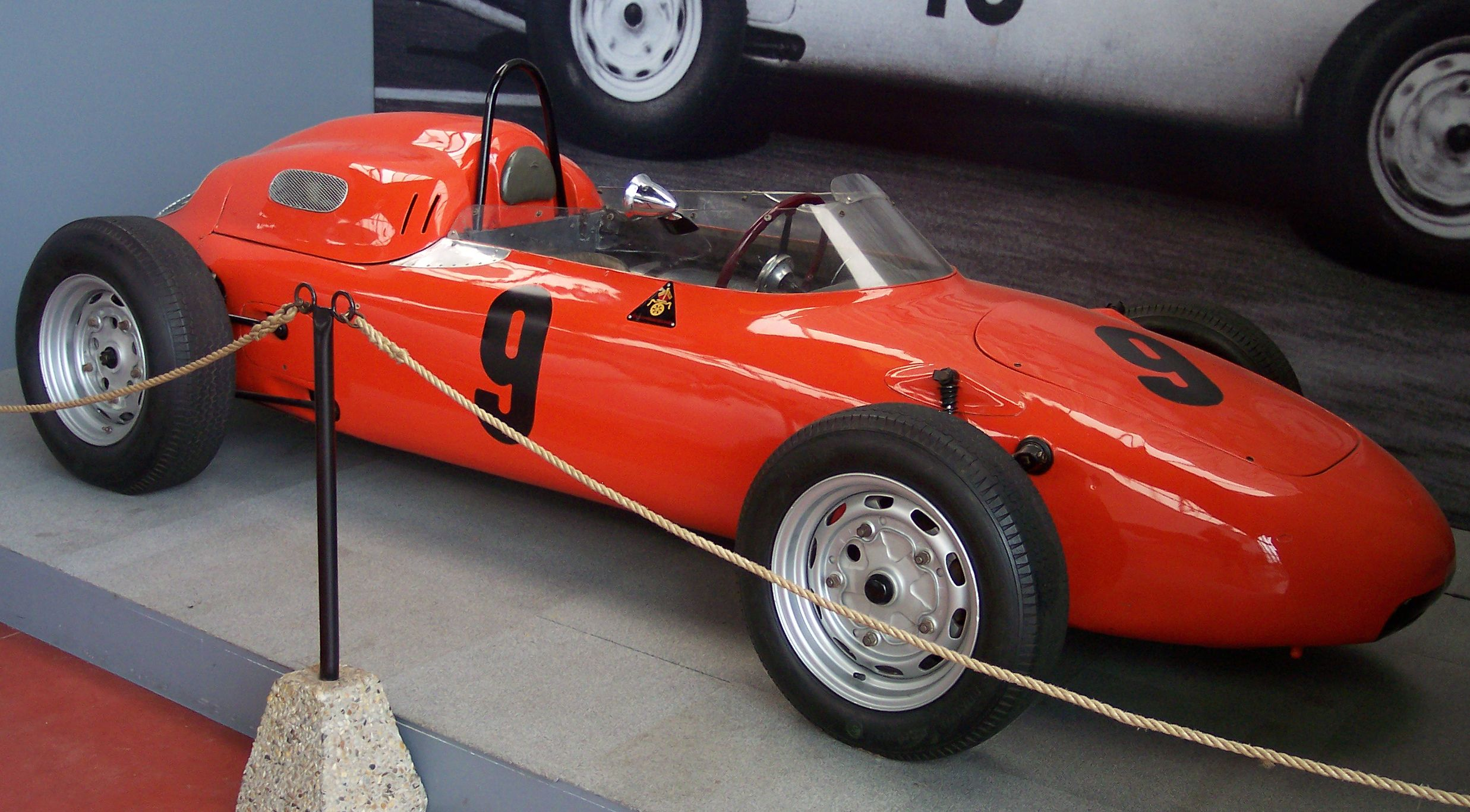 Porsche Formel 2 1960